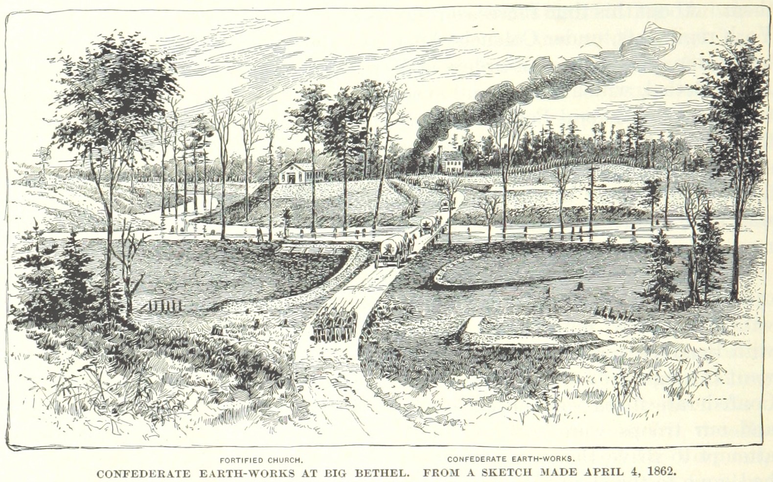 Confederate positions prepared before the Battle of Big Bethel. From a sketch made April 4, 1862.